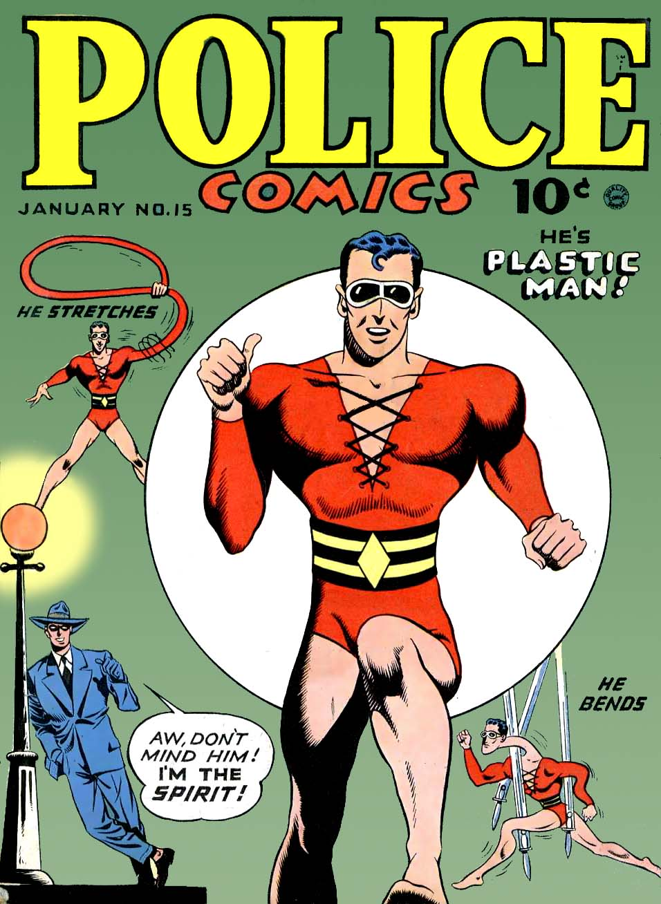 Plastic Man and The Spirit on the cover of Police Comics, volume 1, number 15, January 1943. Artwork by Gill Fox, published by Quality Comics. This image has fallen into the public domain, due to lapsed copyright.